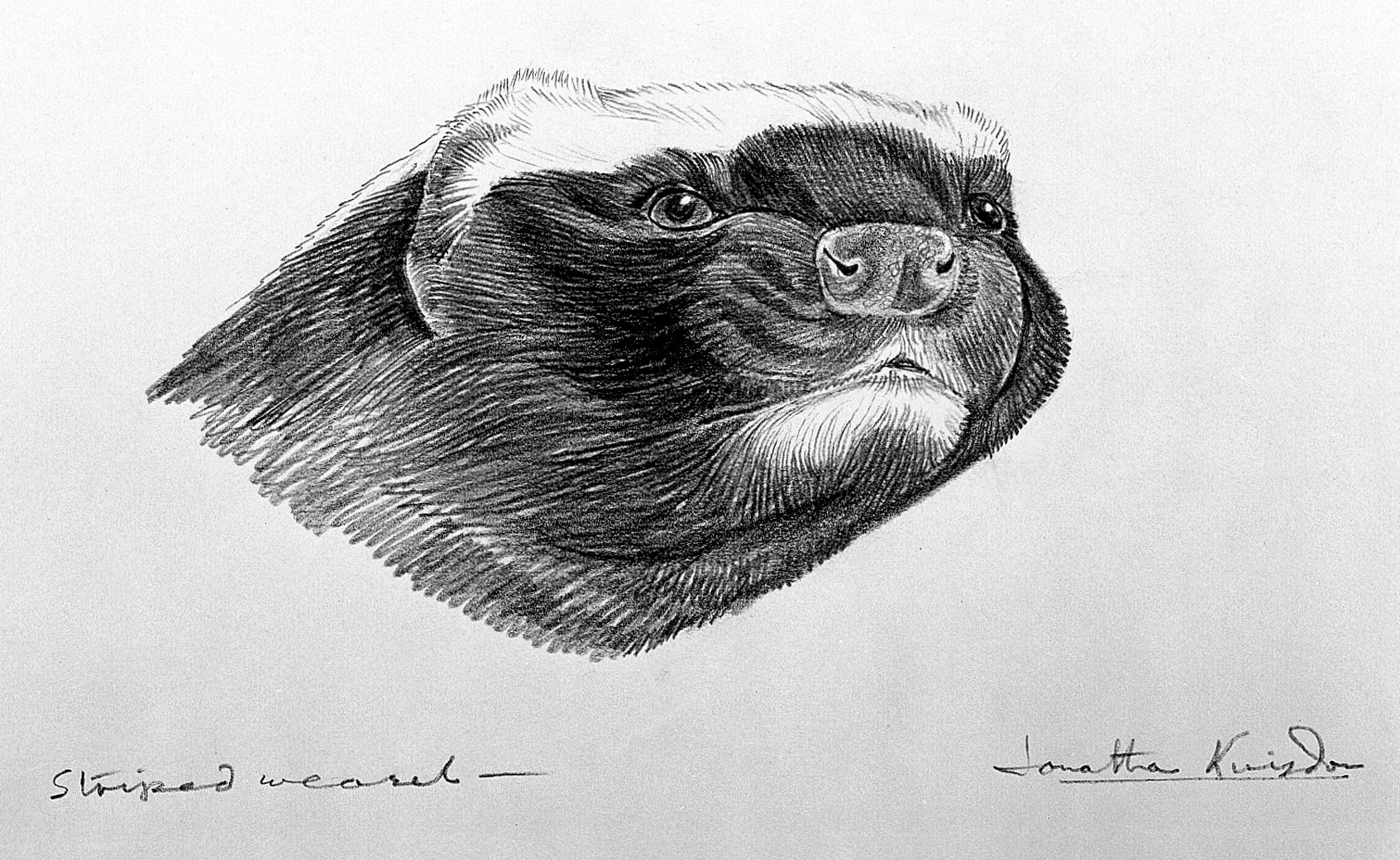 Stiped weasel. Iconographic Collections Keywords: Zoology; Jonathan Kingdom